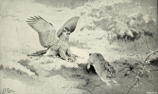 Just missed him, G. E. Lodge